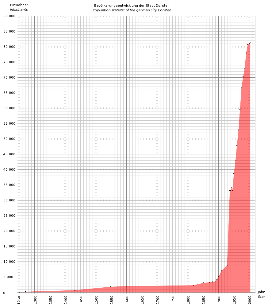 population statistics of the german city Dorsten